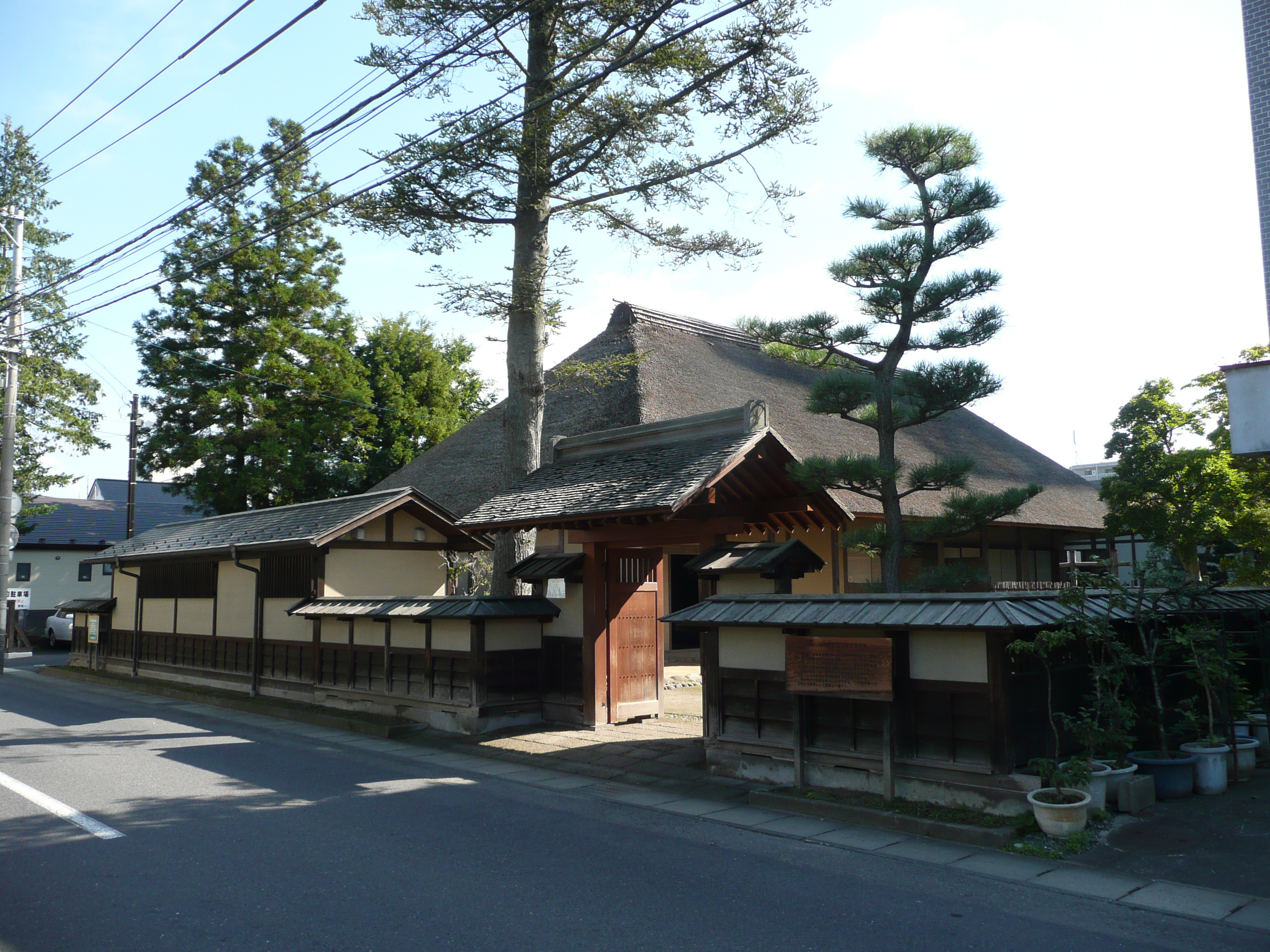 一関市有形文化財である旧沼田家武家住宅